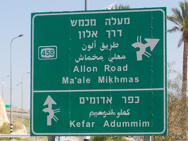 Road sign for "Allon Road" near the settlement of Kfar Adumim.